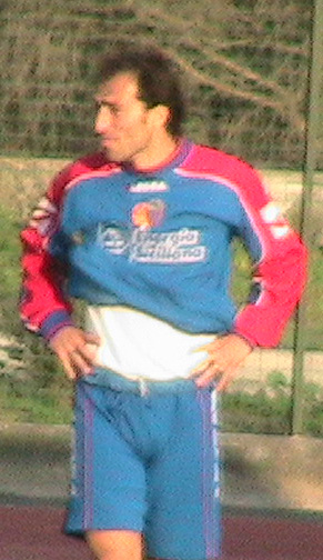 Orazio Russo, ex-Calcio Catania forward, in Massannunziata